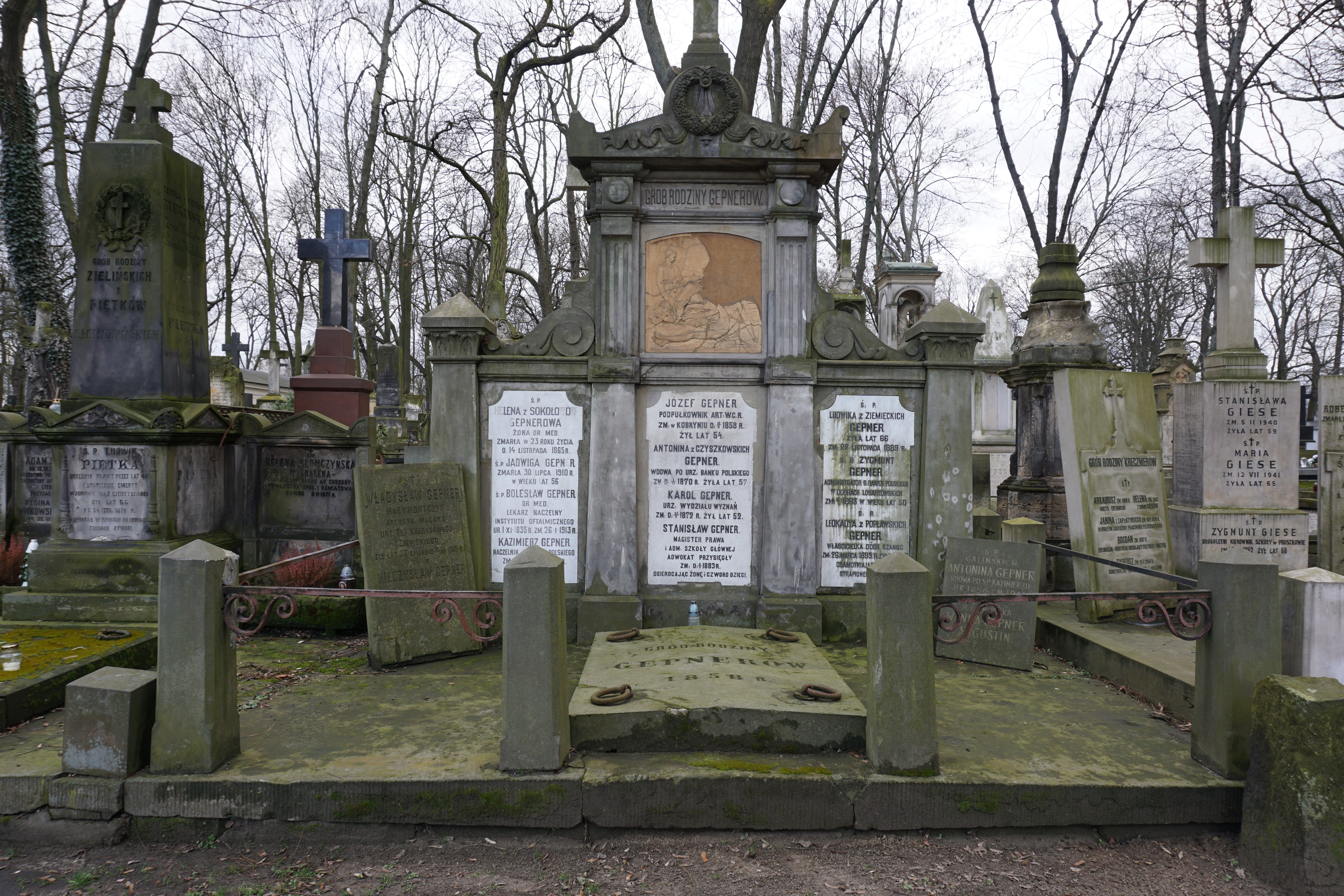 The grave of Bolesław Gepner at the Powązki Cemetery (section 157, row 1, grave 6, 7, 8)